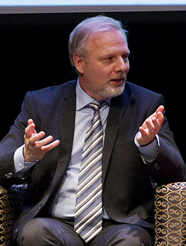 Jean-François Lisée. This is a cropped version of the photograph.